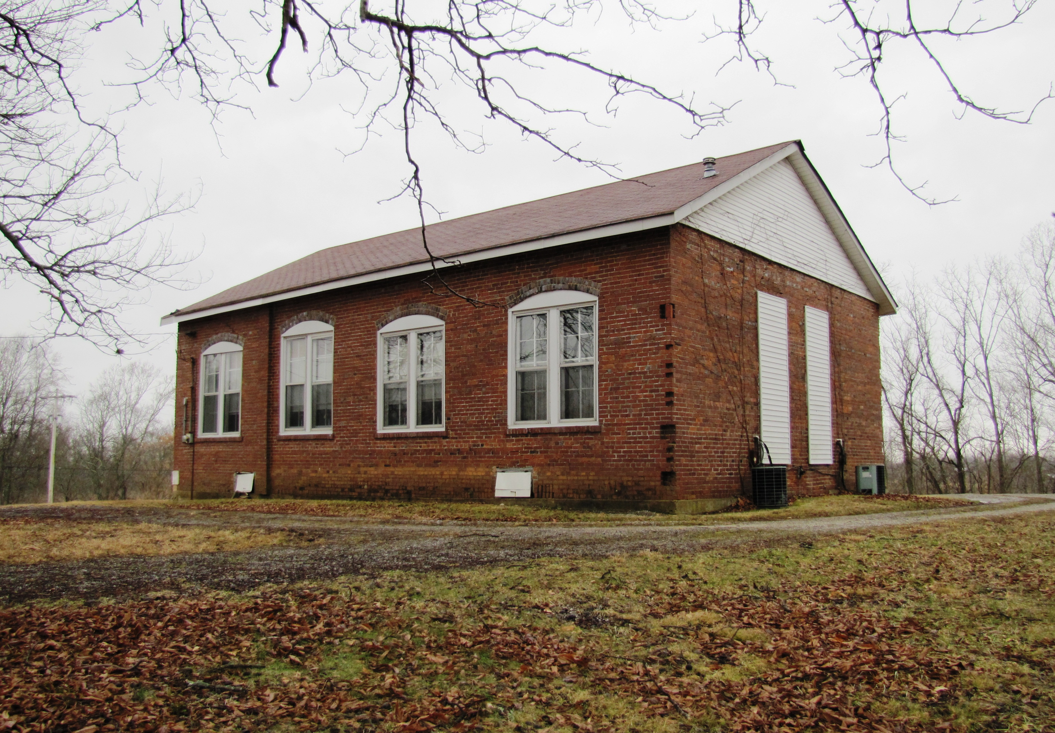 The West End Church of Christ Silver Point, view of the northeast corner, in Silver Point, Tennessee, USA.